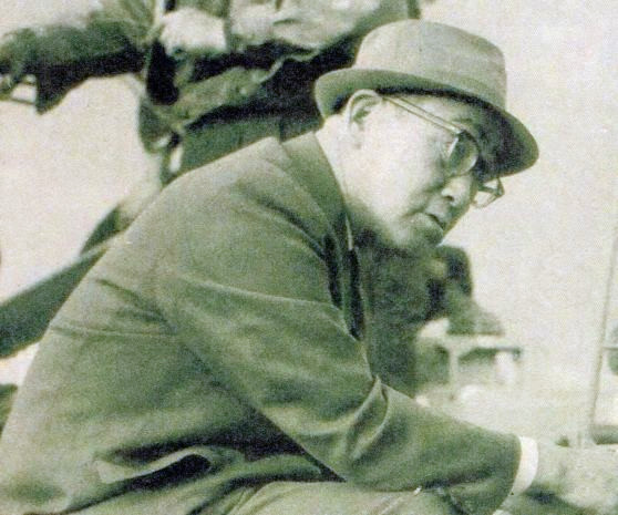 Eiji Tsuburaya